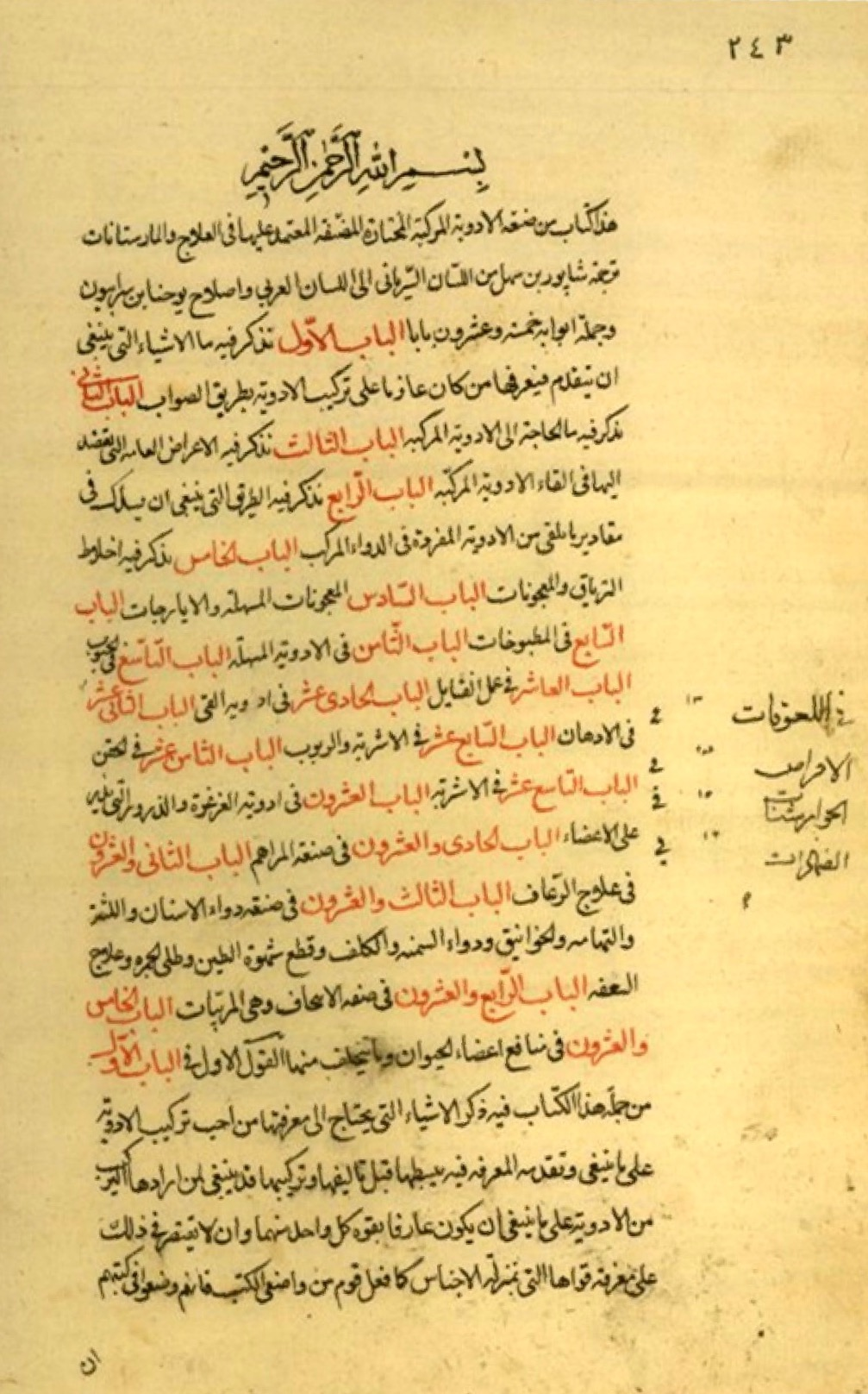 First page of the book Al-Aqribqthin (Arabic: الأقراباذين) of Sabur in Sahl